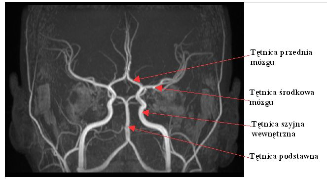 Cerebral arteries- angio-MRI